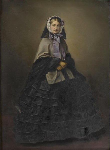 Maria Carolina of Bourbon-Two Sicilies (1822–1869) - Duchess of Aumale